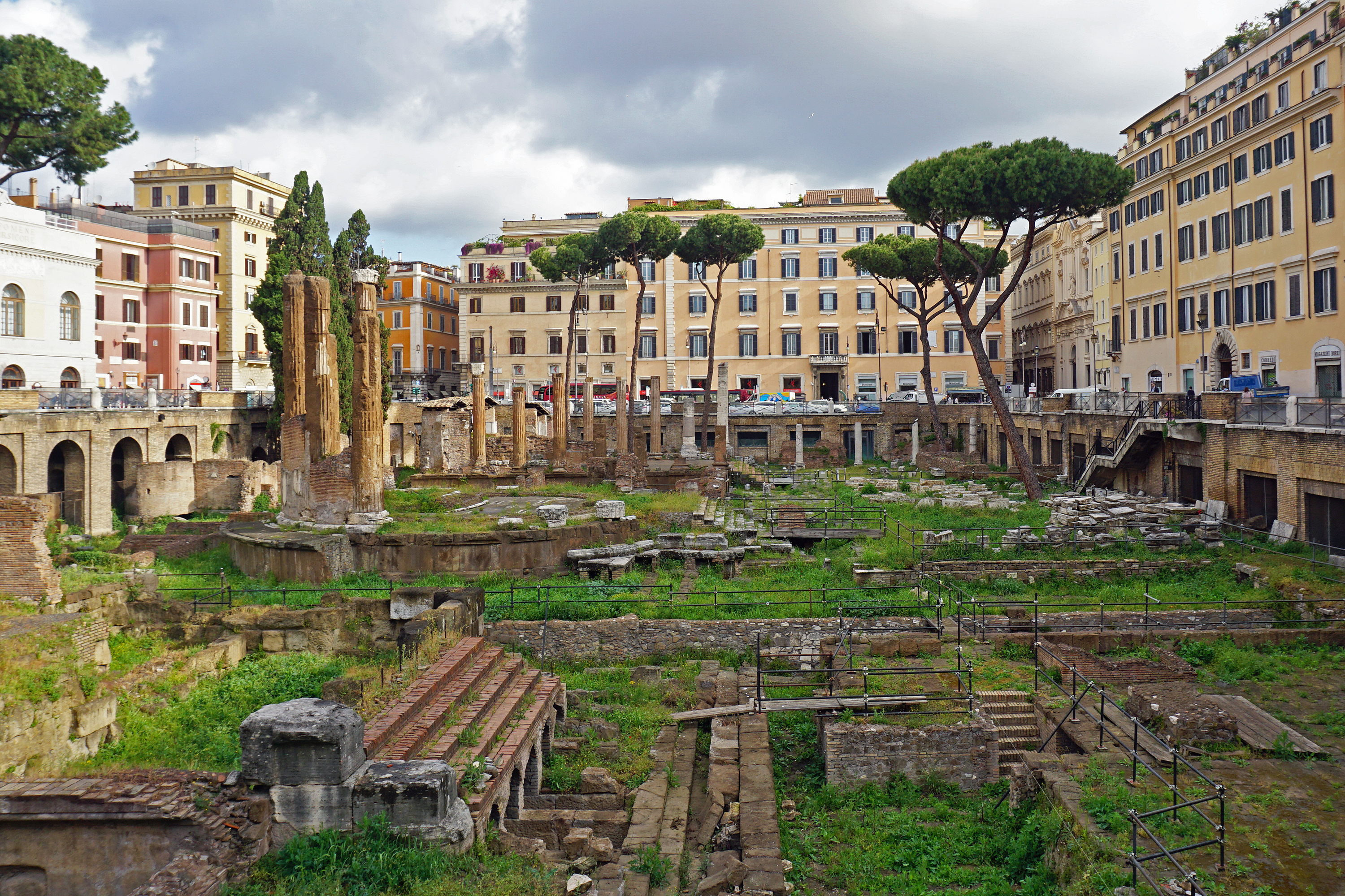 Largo di Torre Argentina, Rome.